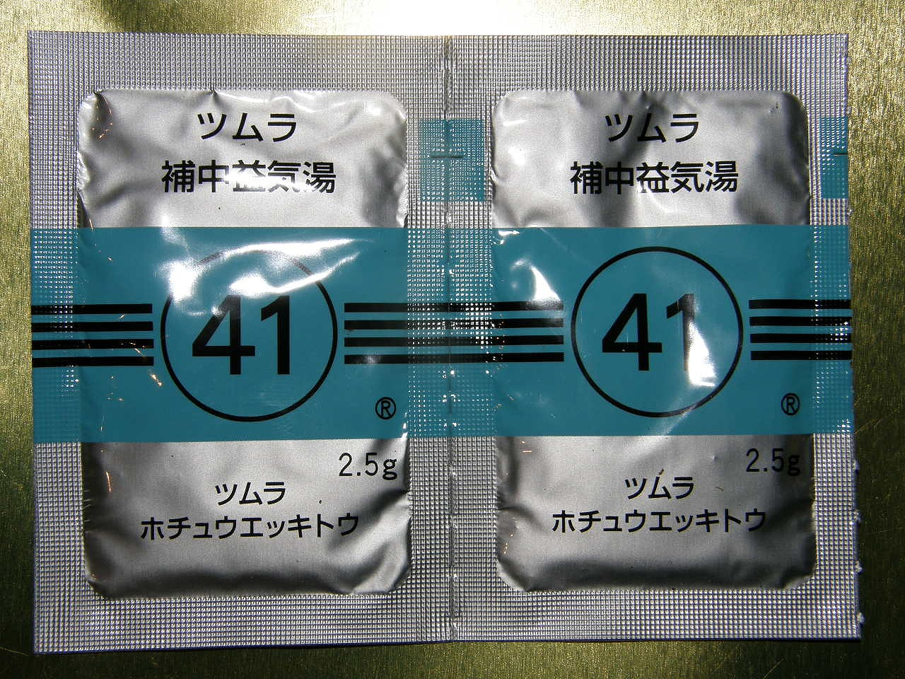 hotyuekkitou/Hochuekkito